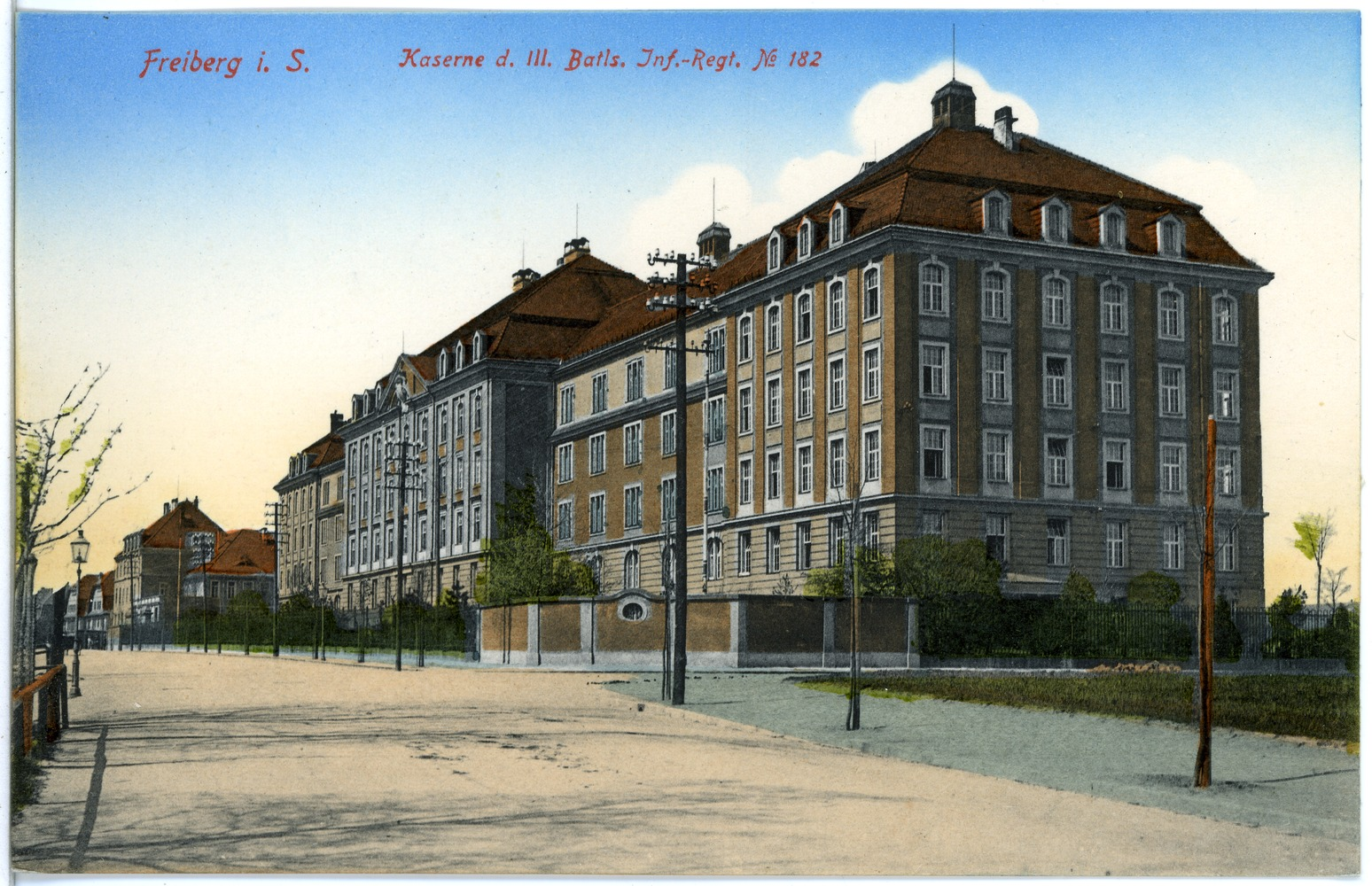 This postcard is from publisher Brück & Sohn in Meißen ( This postcard has a unique number 18974 and is available in a higher resolution at the publisher. This images was uploaded in a cooperation project between Wikipedians and the publisher.